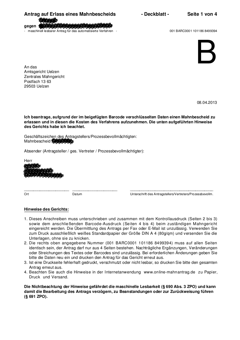 Automated request for a German court order to demand payment of a debt.